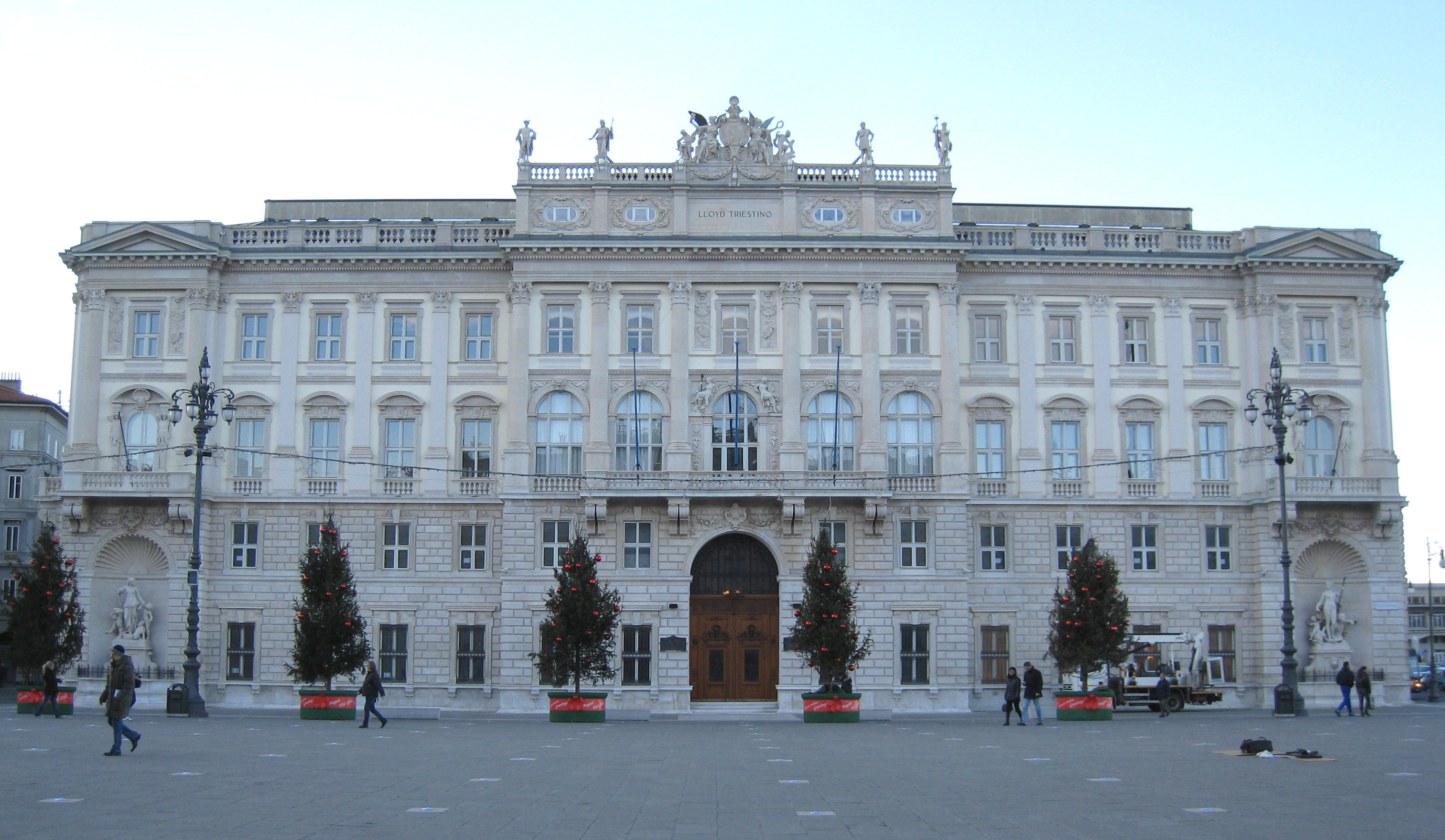 The historic head office of Lloyd Triestino in Trieste. December 2007